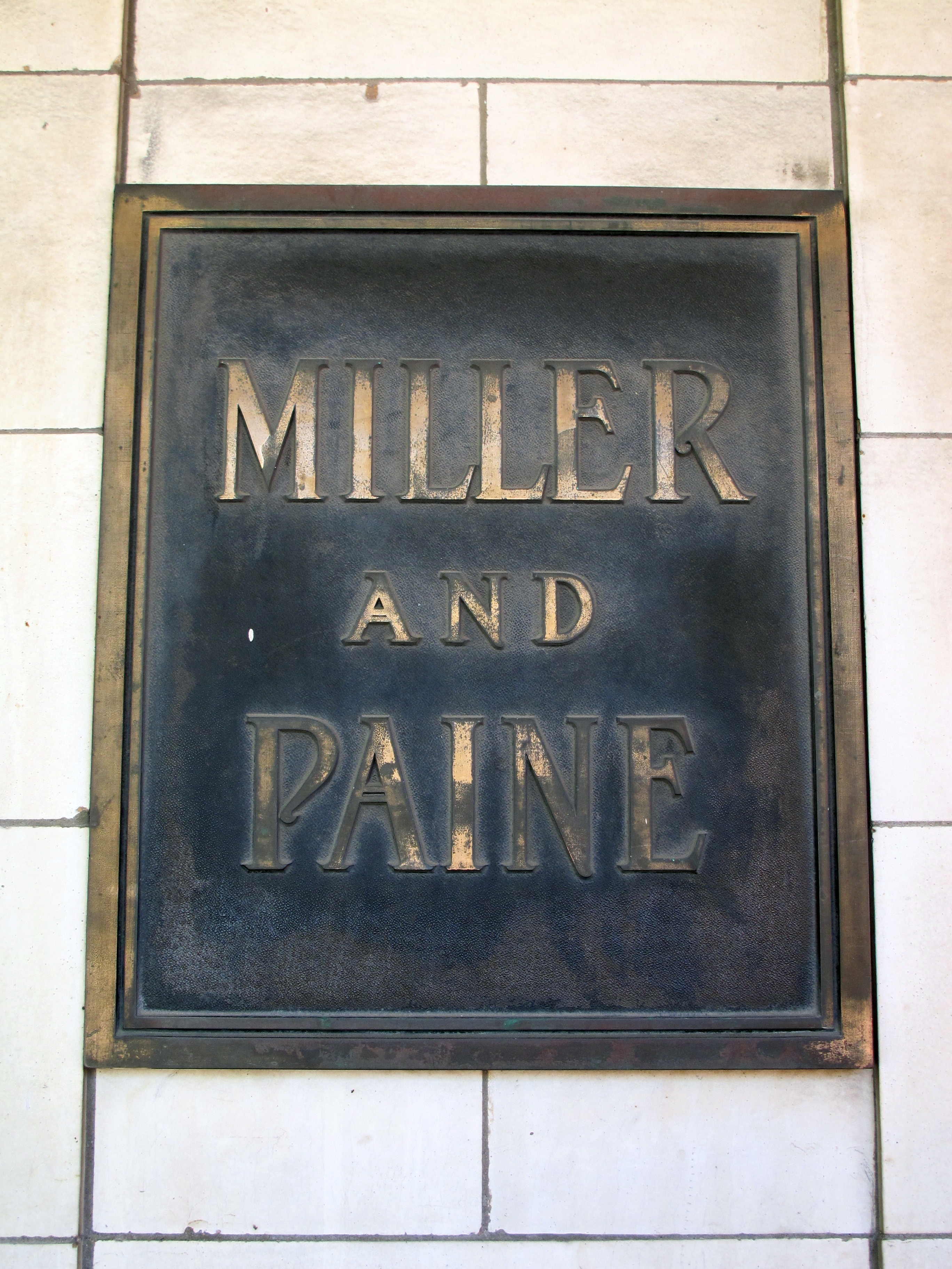 One of many plaques fixed the outside of the Miller & Paine Building, 1215 "O" Street, Lincoln, Nebraska, USA. This one is seen to the left of the main entrance on S. 13th Street.